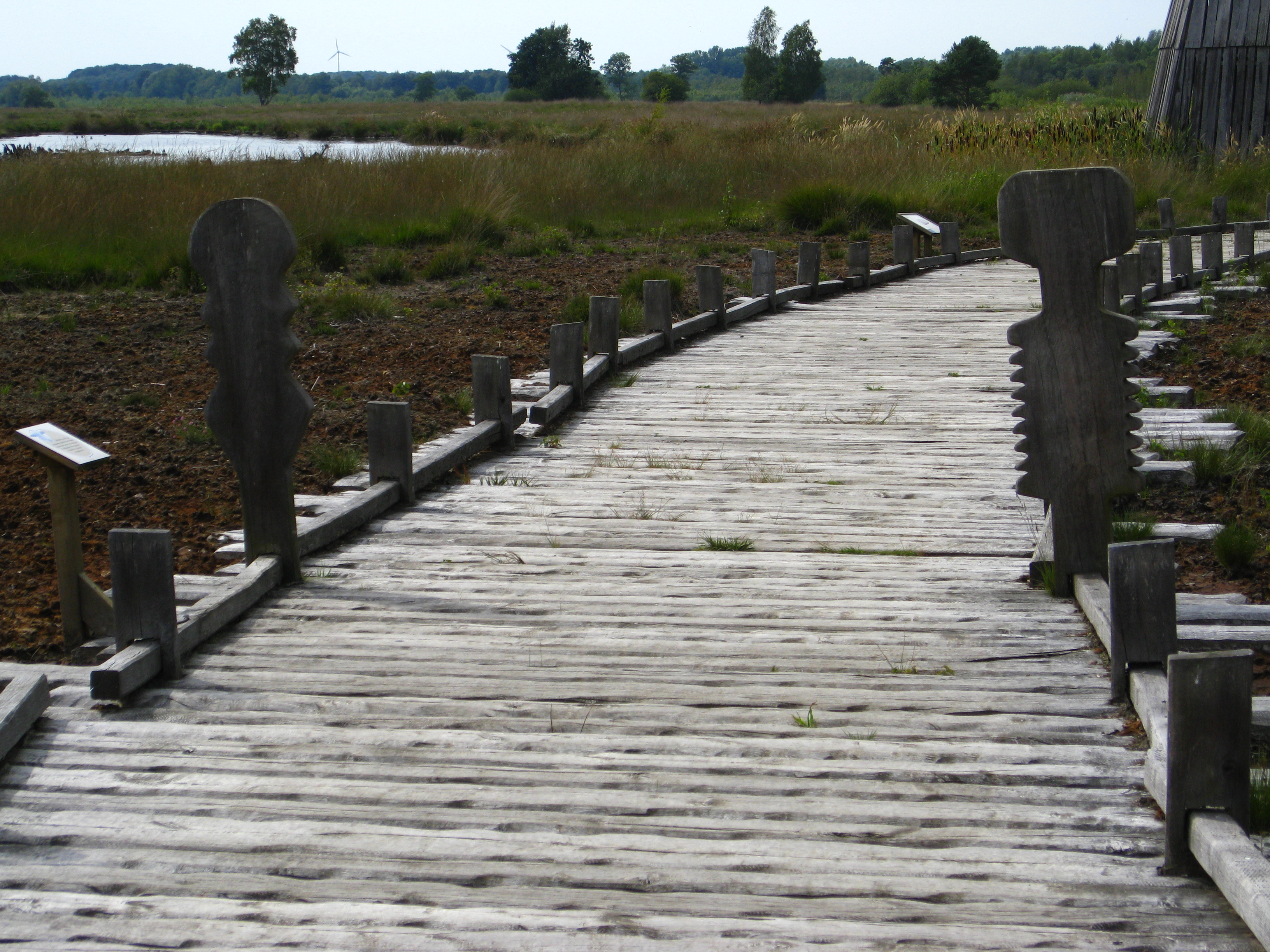 A wooden bridge installed by the LIFE-Nature project on the Großes Torfmoor. The two wooden totems are replicas of ancient totems that marked dangerous areas.